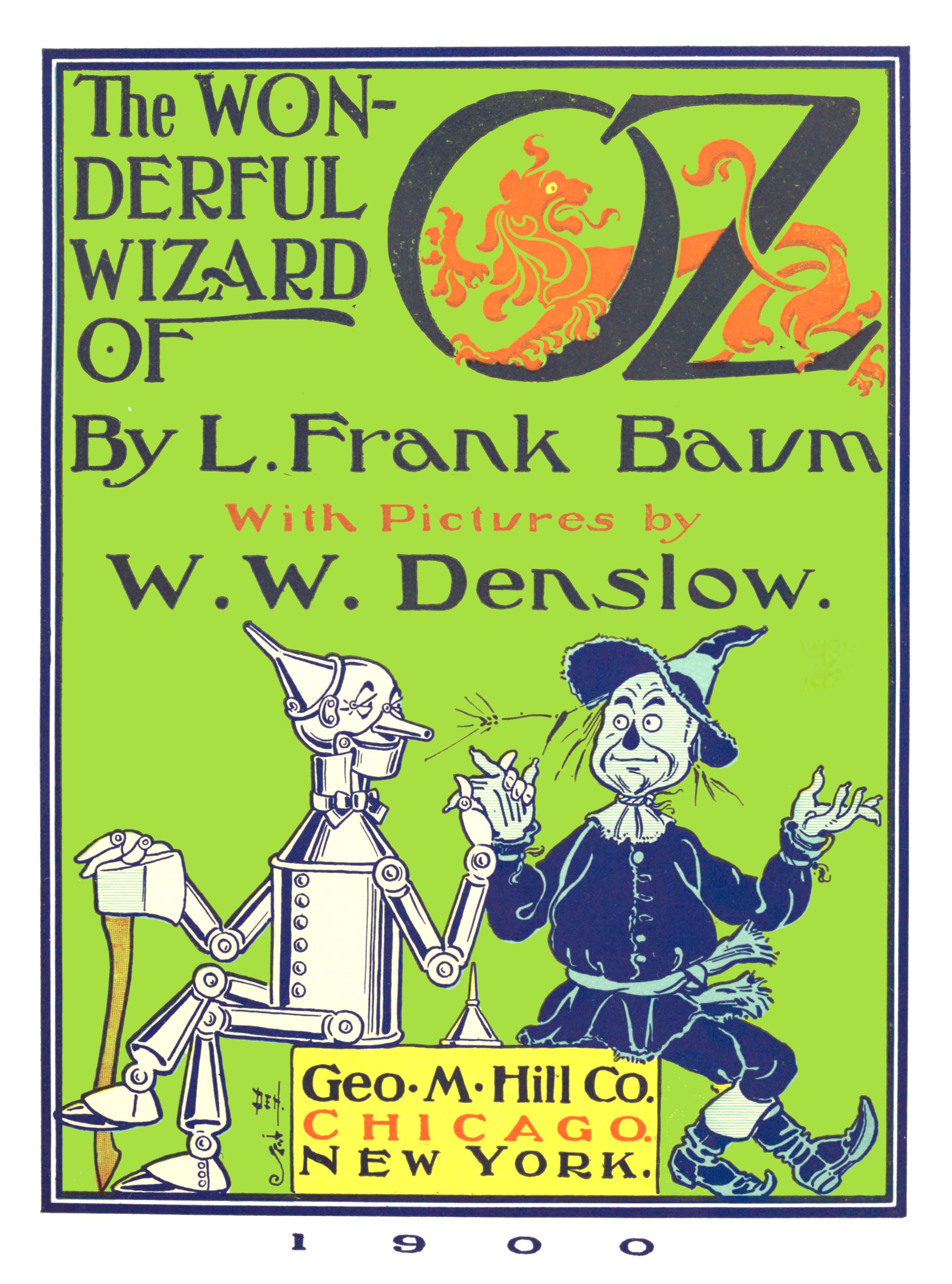 Title plate of The Wonderful Wizard of Oz (not the cover, it's the interior title page), 1900 Wizard